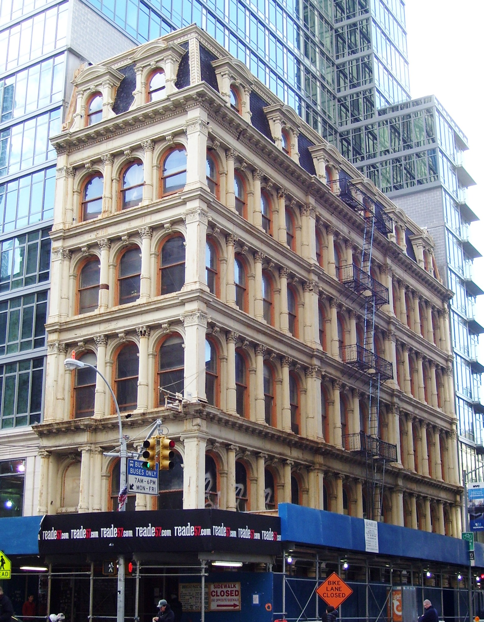 287 Broadway on the corner of Reade Street in the Tribeca neighborhood of Manhattan, New York City was built in 1871-72 and was designed by John B. Snook in the French Second Empire style. The cast iron elements came from Jackson, Burnet & Co. The building was designated a NYC landmark in 1989. (Source: Guide to NYC Landmarks (4th ed.))